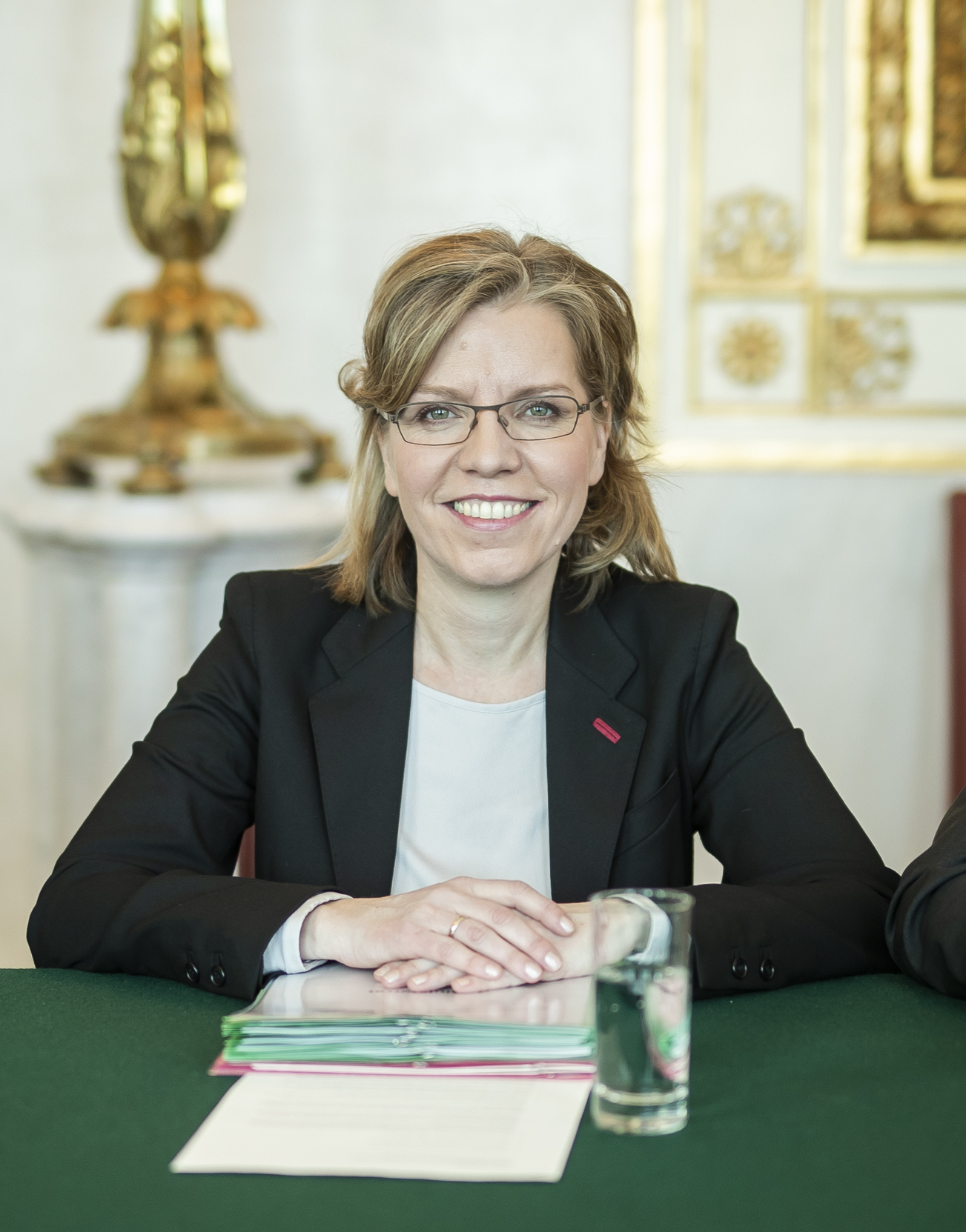 Fotocredit: BKA